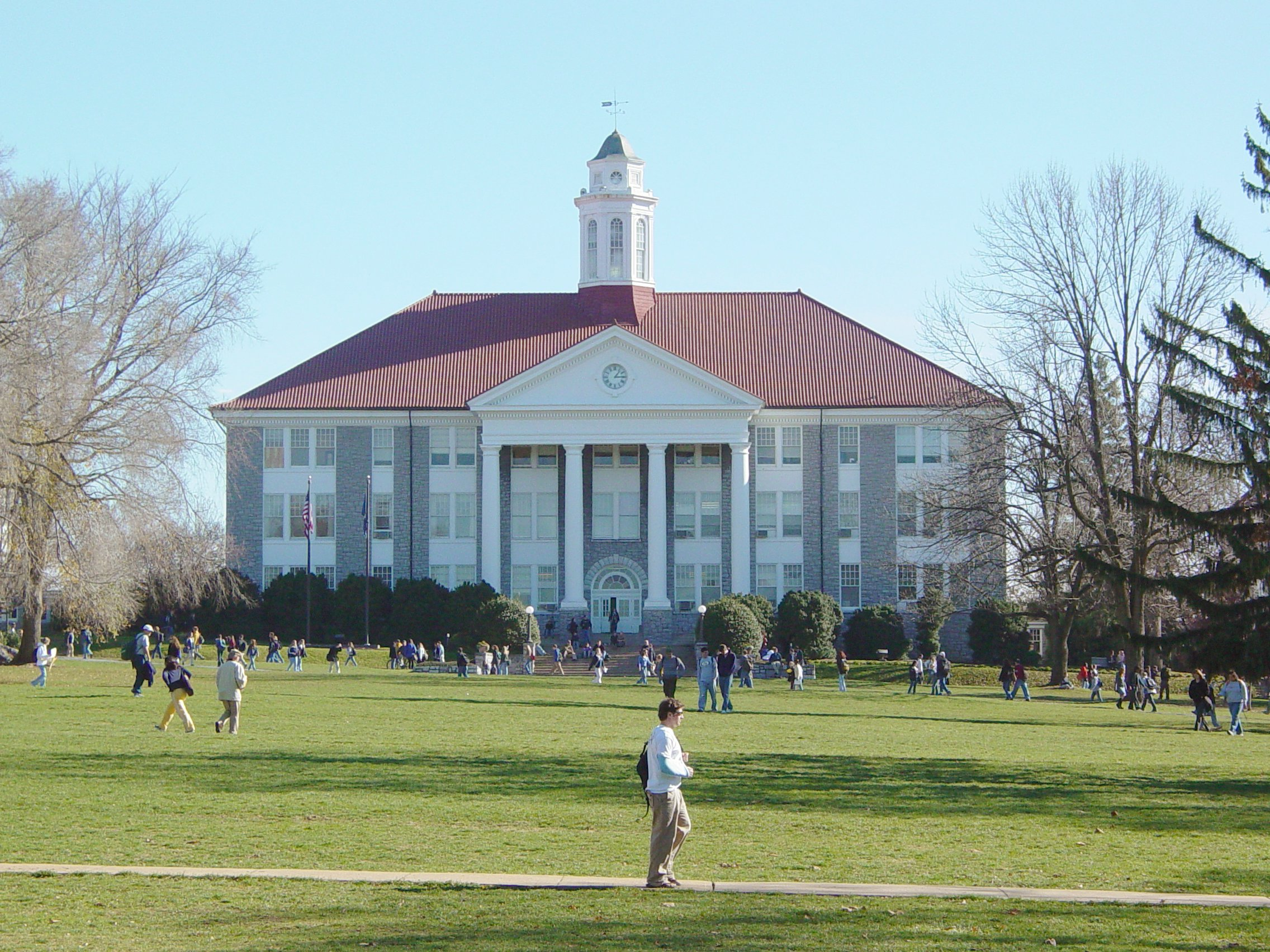 Wilson Hall at James Madison University